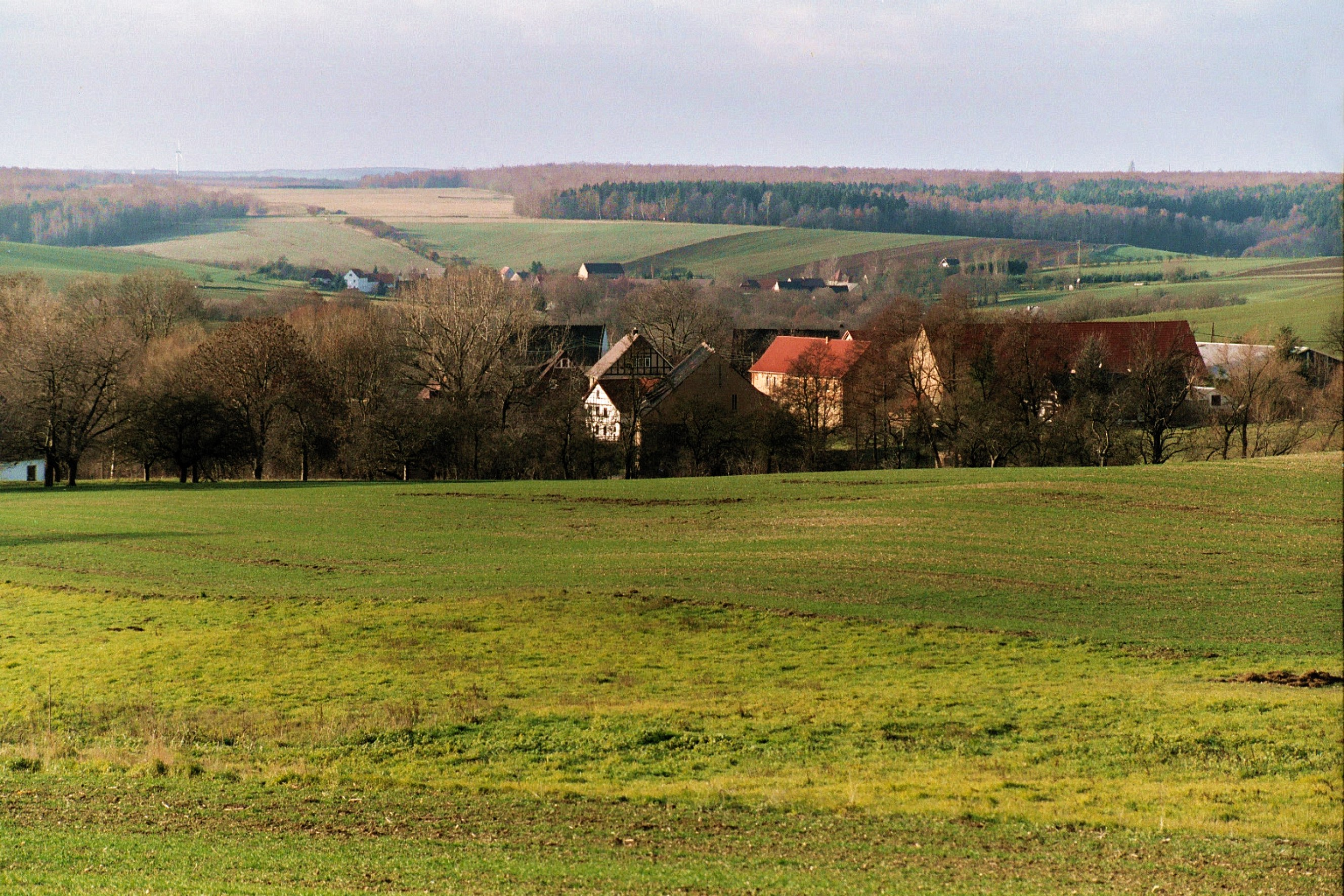 Schellbach (Gutenborn), view to Schellbach and Lonzig